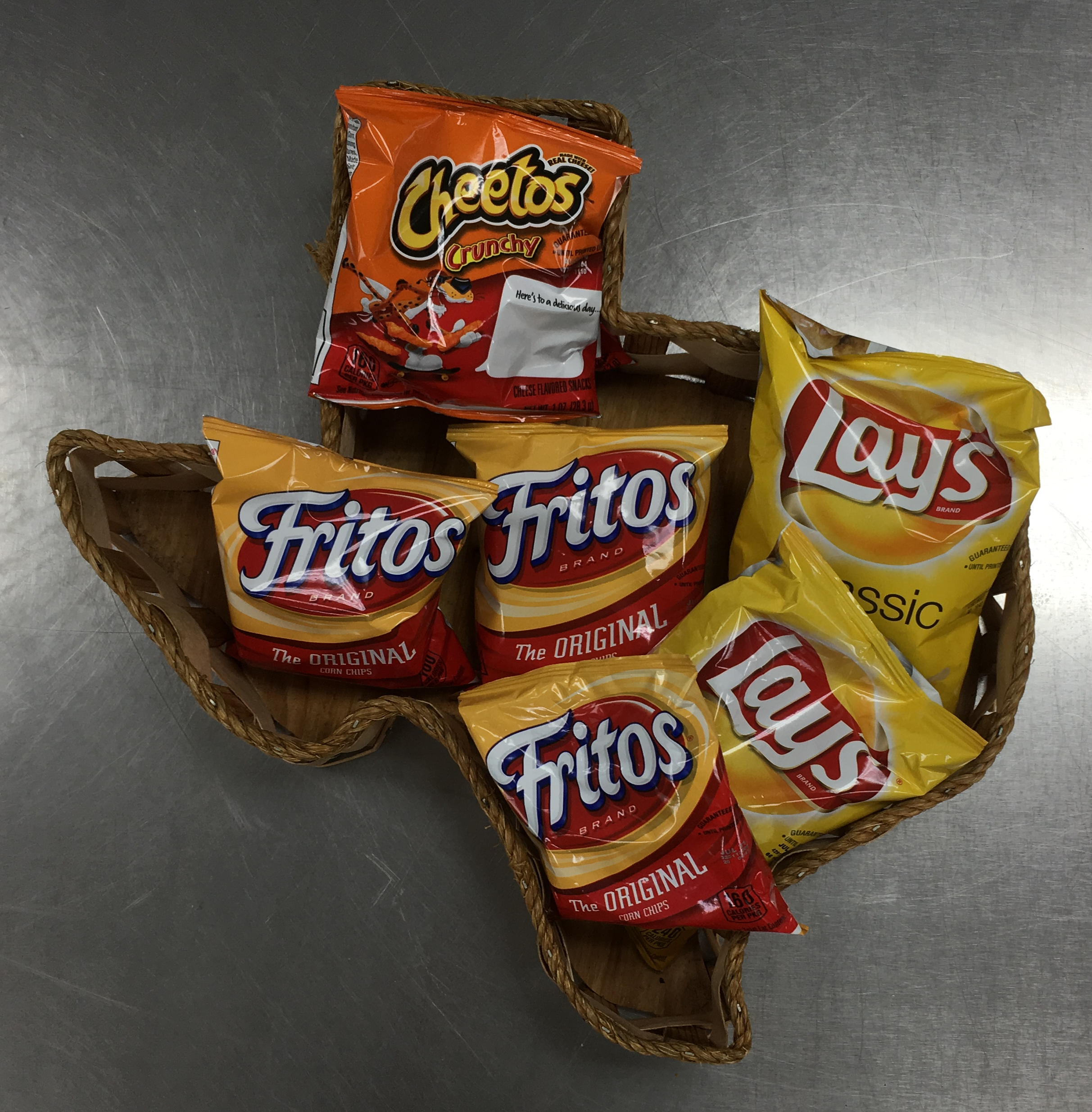 The basket is in the shape of Texas, holding chips from Lays, based in Plano, TX